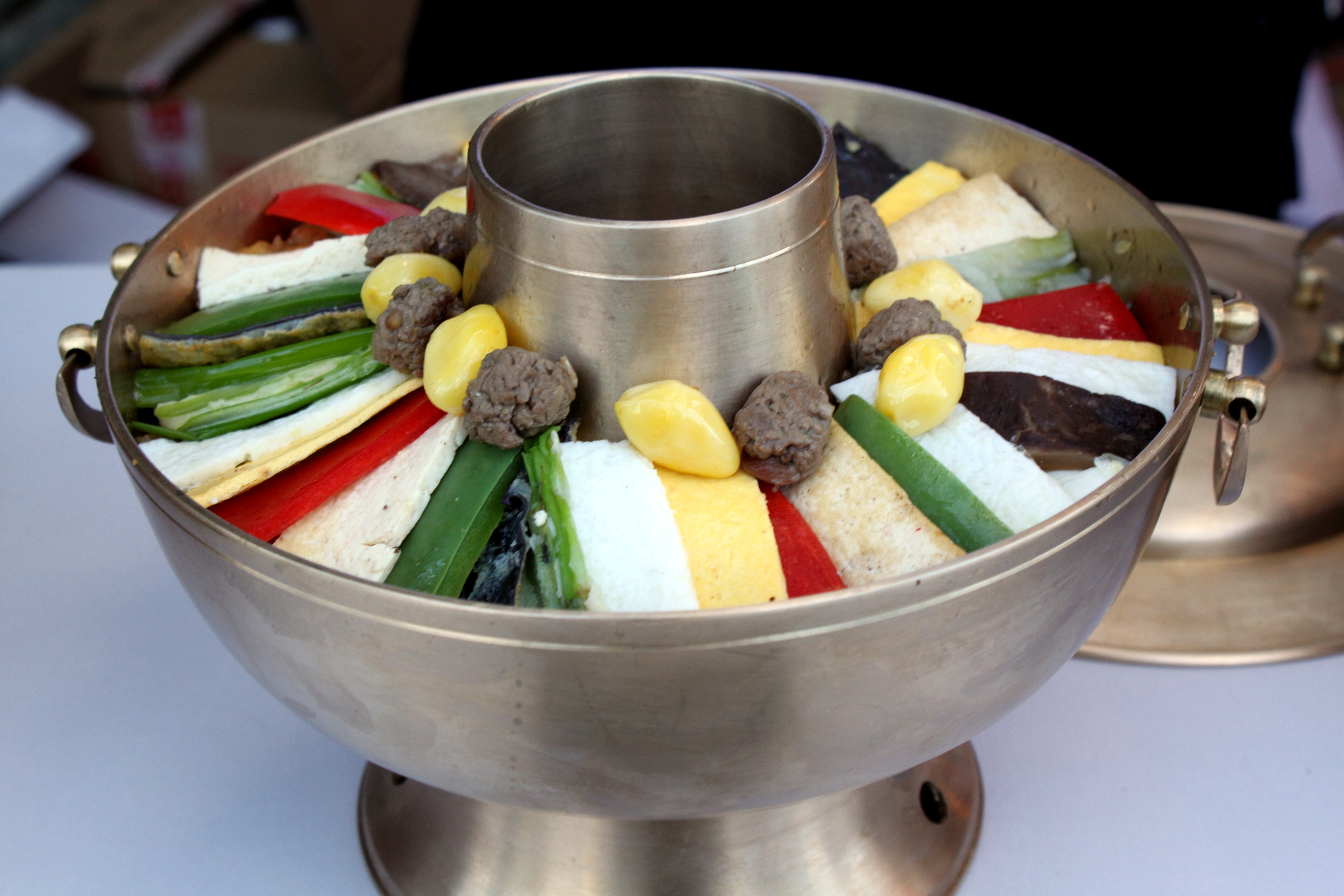 Foundation Day Celebration at Korean Ambassador's House on October 6, 2009.